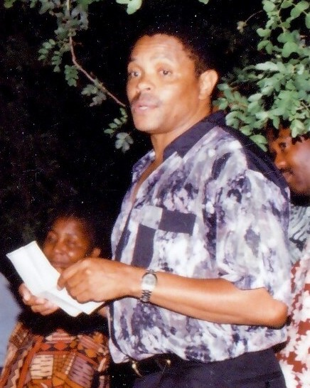 Major General Siphiwe Nyanda, later General as Chief of the South African National Defence Force